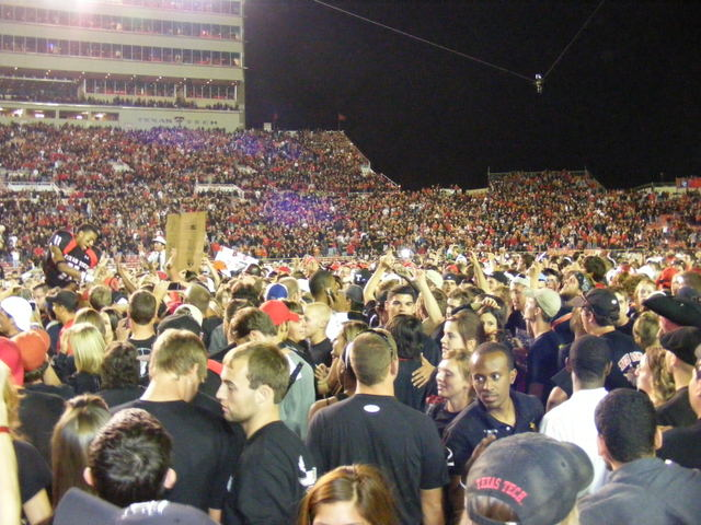 Photo Credit: Jacky Rigney Texas Tech students and fans rush the field after the #5 Red Raiders upset the #1 Longhorns in 2008.